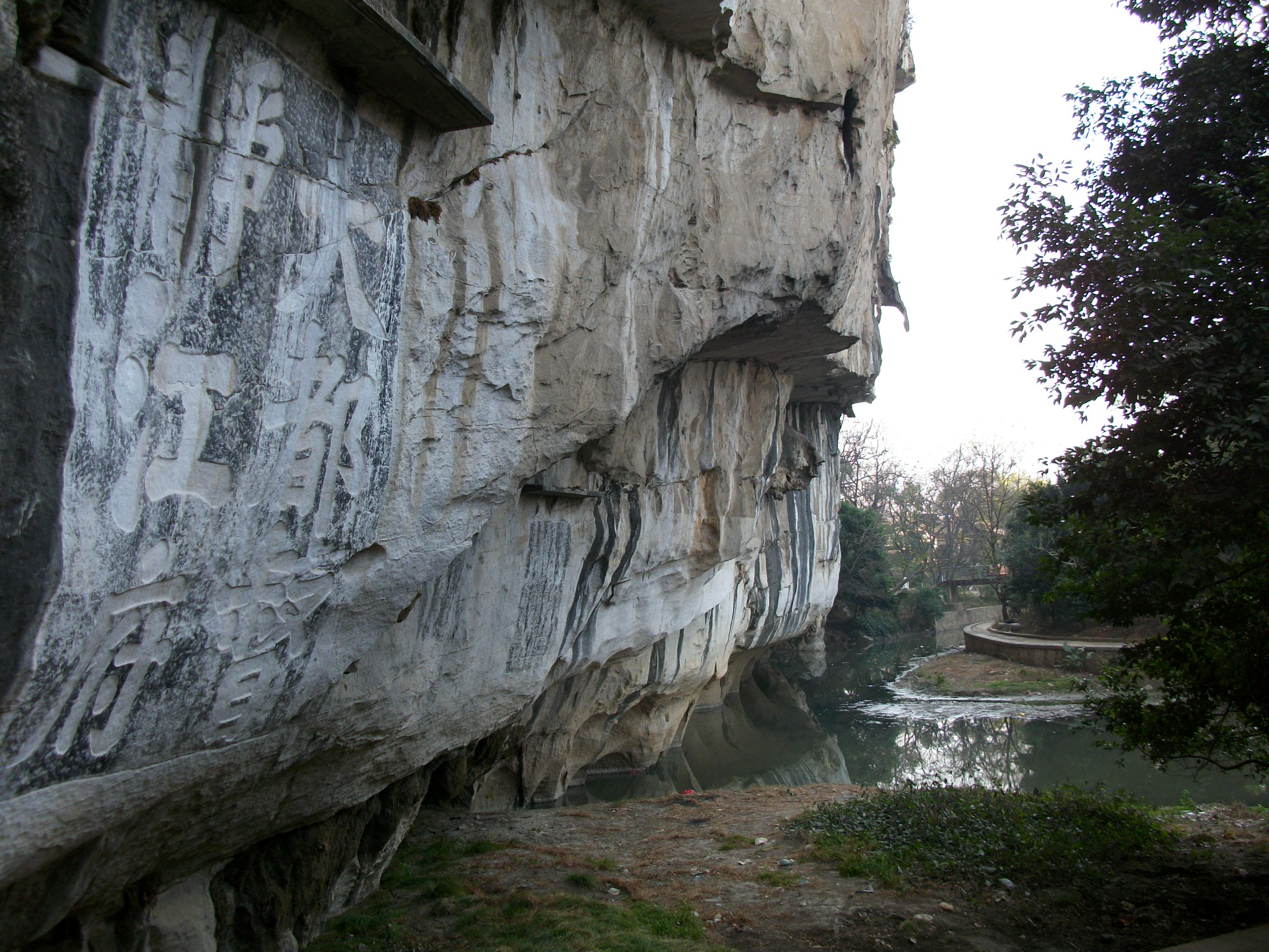 Lingjian River in Guilin.